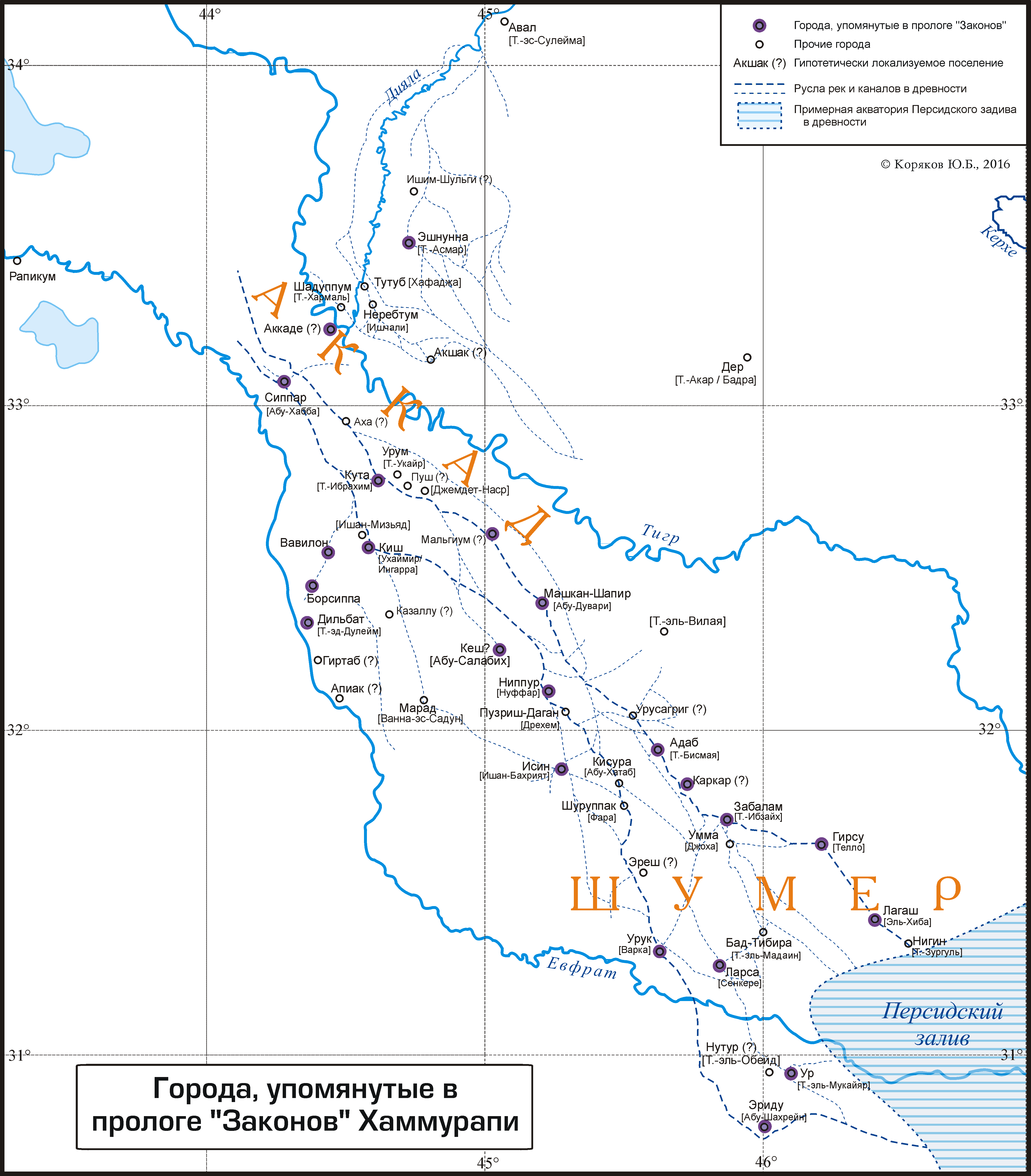 Cities mentioned in Laws of Hammurapi